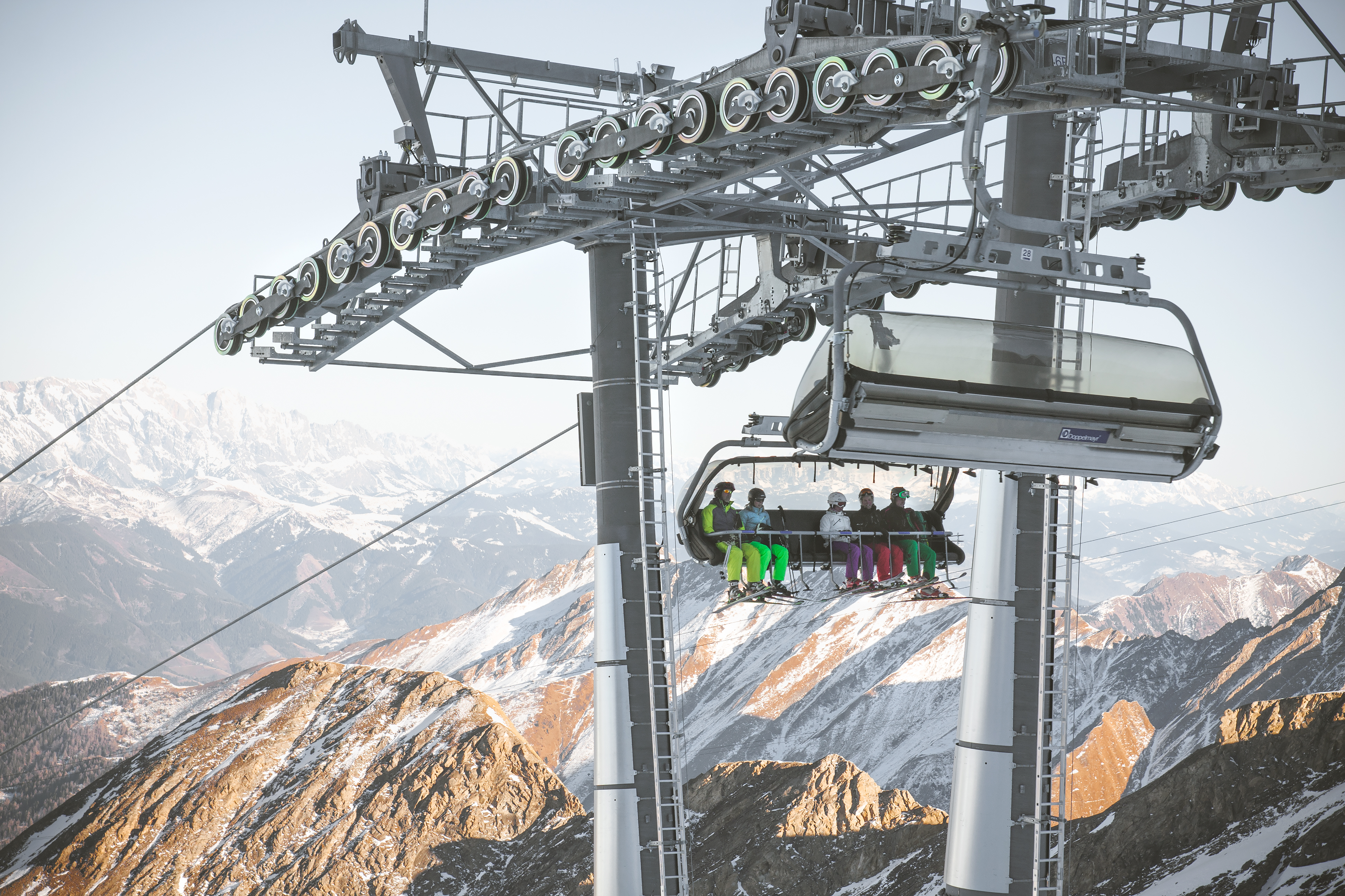 Kaprun, Austria